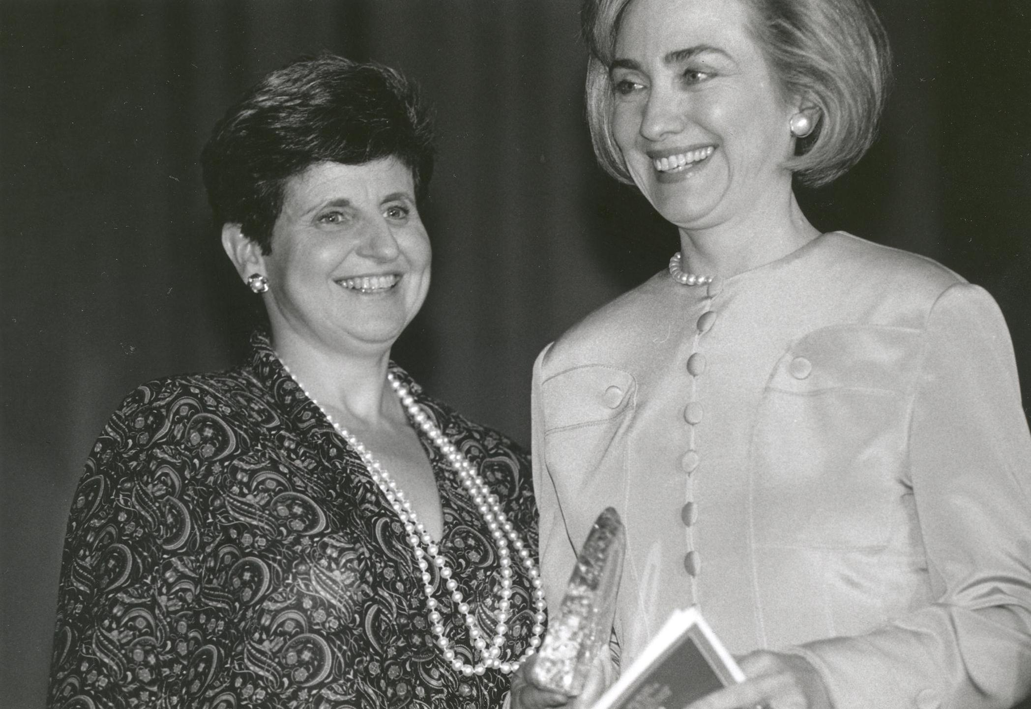 Women's Legal Defense Fund—WLDF President Judith Lichtman honors First Lady Hillary Rodham Clinton. The WLDF is now known as the National Partnership for Women & Families.